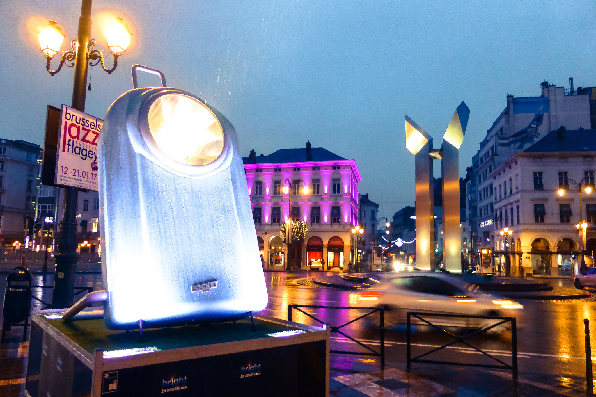 500px provided description: Brussels, winter 2017 Porte de Namur [#city ,#concept ,#contrast ,#night ,#light ,#urban ,#colors ,#installation ,#light bulb ,#Brussels ,#Brussels-capital region]